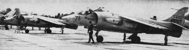 Hawker Siddley XV-6A Kestrel aircraft at the U.S. Naval Air Test Center at Patuxent River, Maryland (USA), in 1966. Nine former Royal Air Force Kestrel FGA.1s (RAF serials XS688/XS696) were used used for tri-service tests by the U.S. Air Force, the U.S. Army, and the U.S. Navy. Only eight were deilivered, as one crashed in Great Britain. The XV-6A 64-18267 (RAF XS693) shown in the center of the picture crashed near Boscombe Down on 21 September 1967 following an engine failure. RAF Boscombe Down is an aircraft testing site located south of Amesbury, Wiltshire, Great Britian. The XV-6A 64-18262 (RAF XS688) is today preserved at the USAF Museum at Wright Patterson AFB, Ohio (USA).